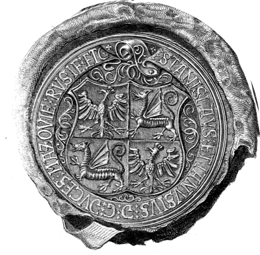 Seal of Janusz and Stanisław Princes of Mazovia